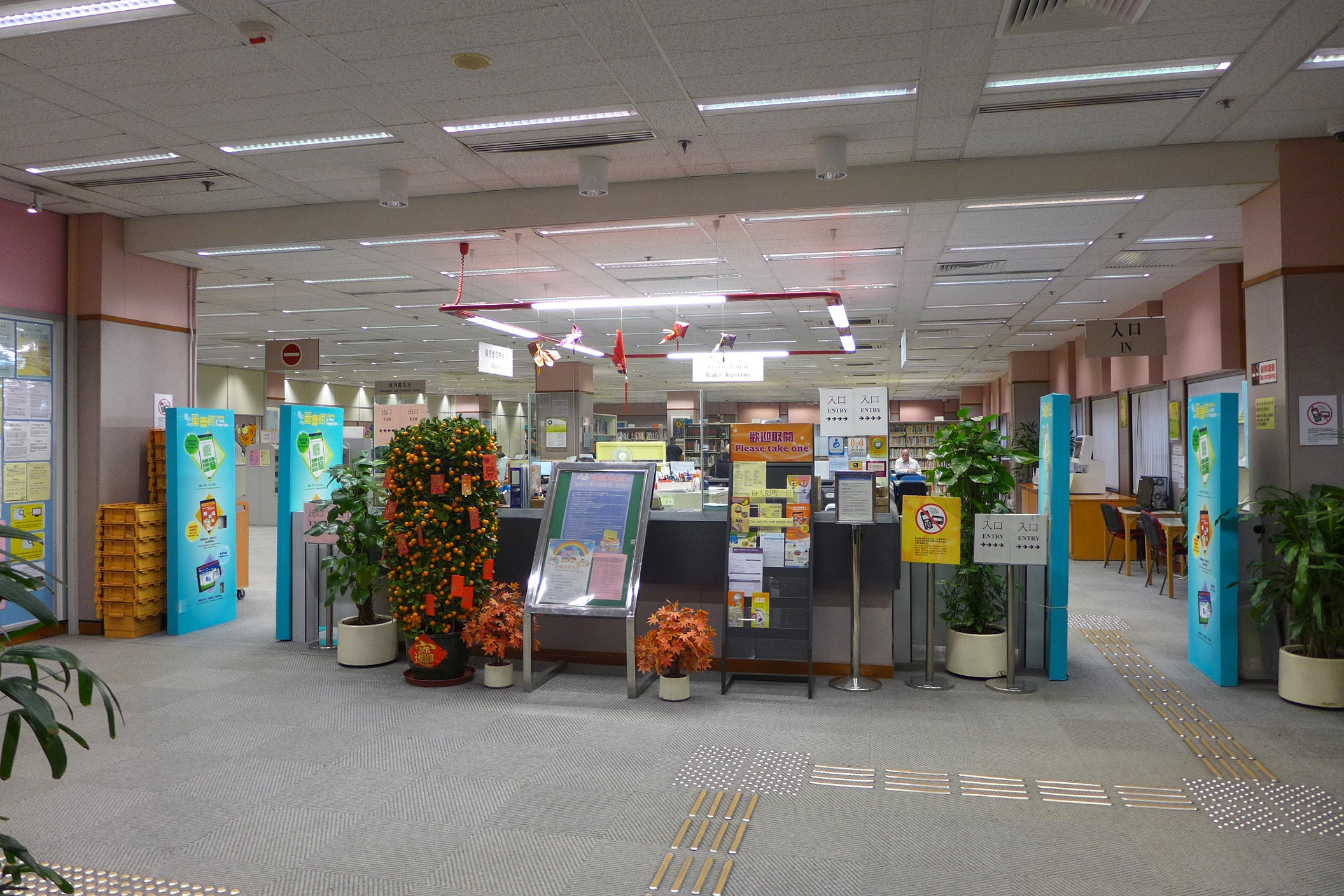 Smithfield Public Library Entrance